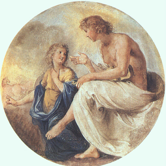 Apollo and Fetonte